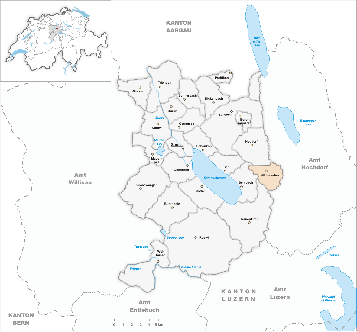 Municipality Hildisrieden